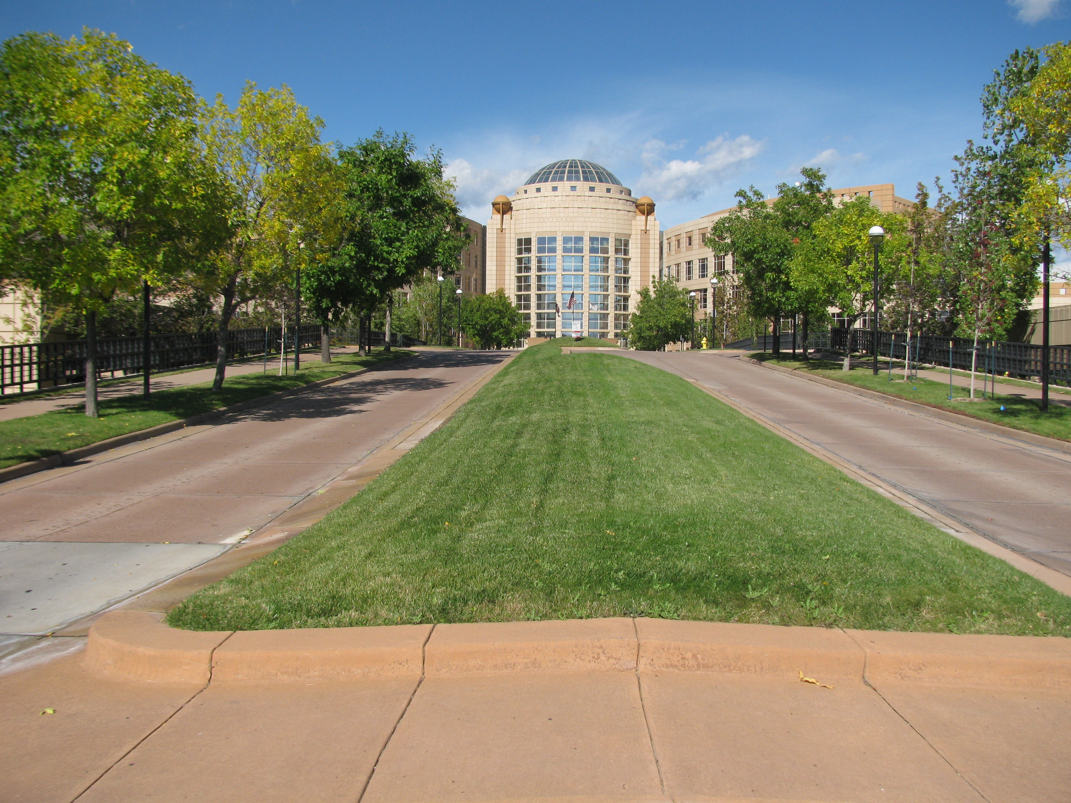 Front Entrance of Jefferson County Courthouse, in Golden, Colorado, United States.